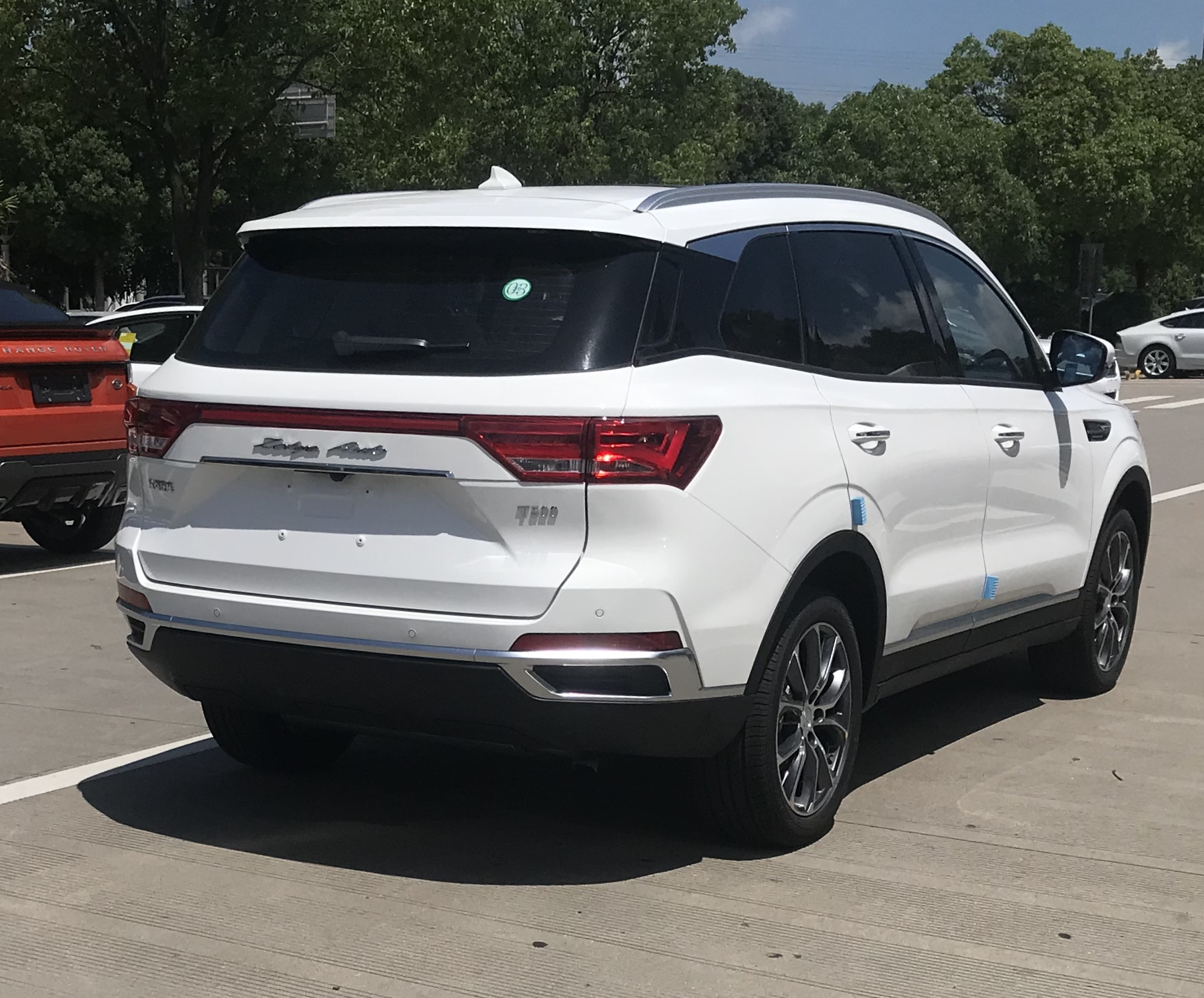 Zotye T500 In Suzhou